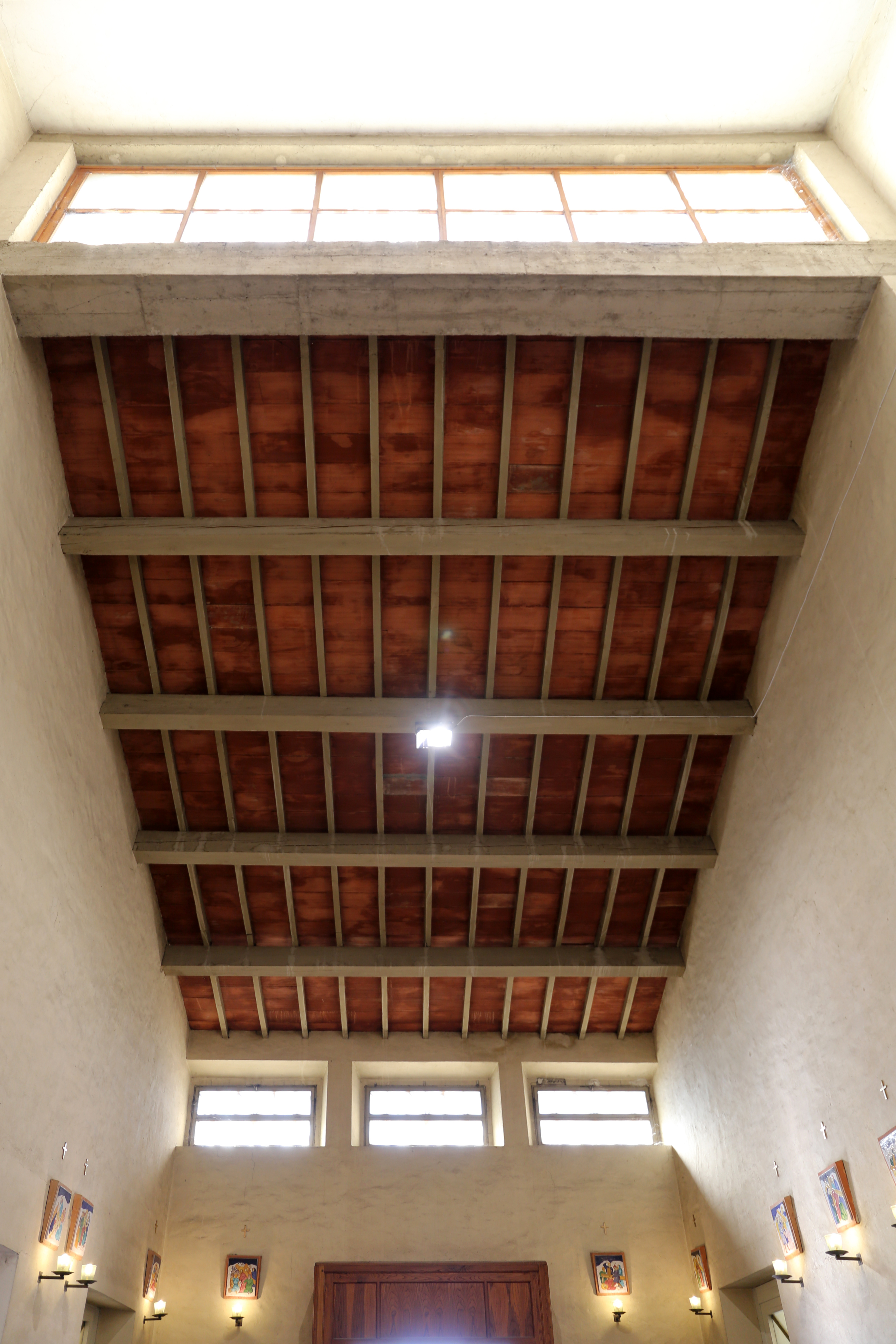 Santi Pietro e Girolamo (Pistoia)